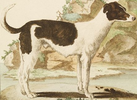 Mâtin, extinct French dog breed